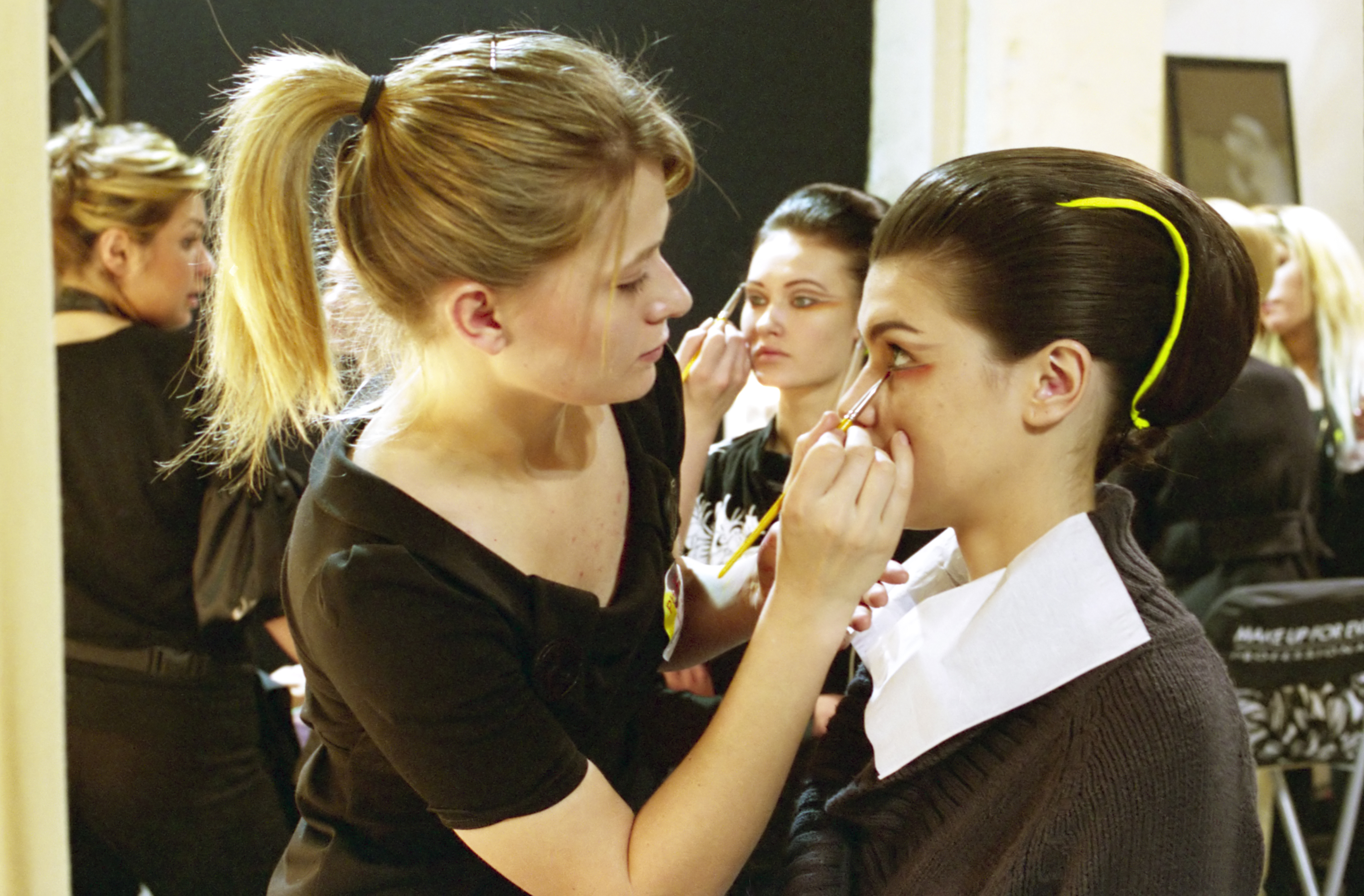 Make-up artist backstage at the Lefranc-Ferrant Fashion show, Paris.